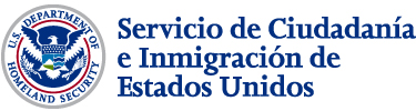 The logo of U.S. Citizenship and Immigration Services (Spanish)